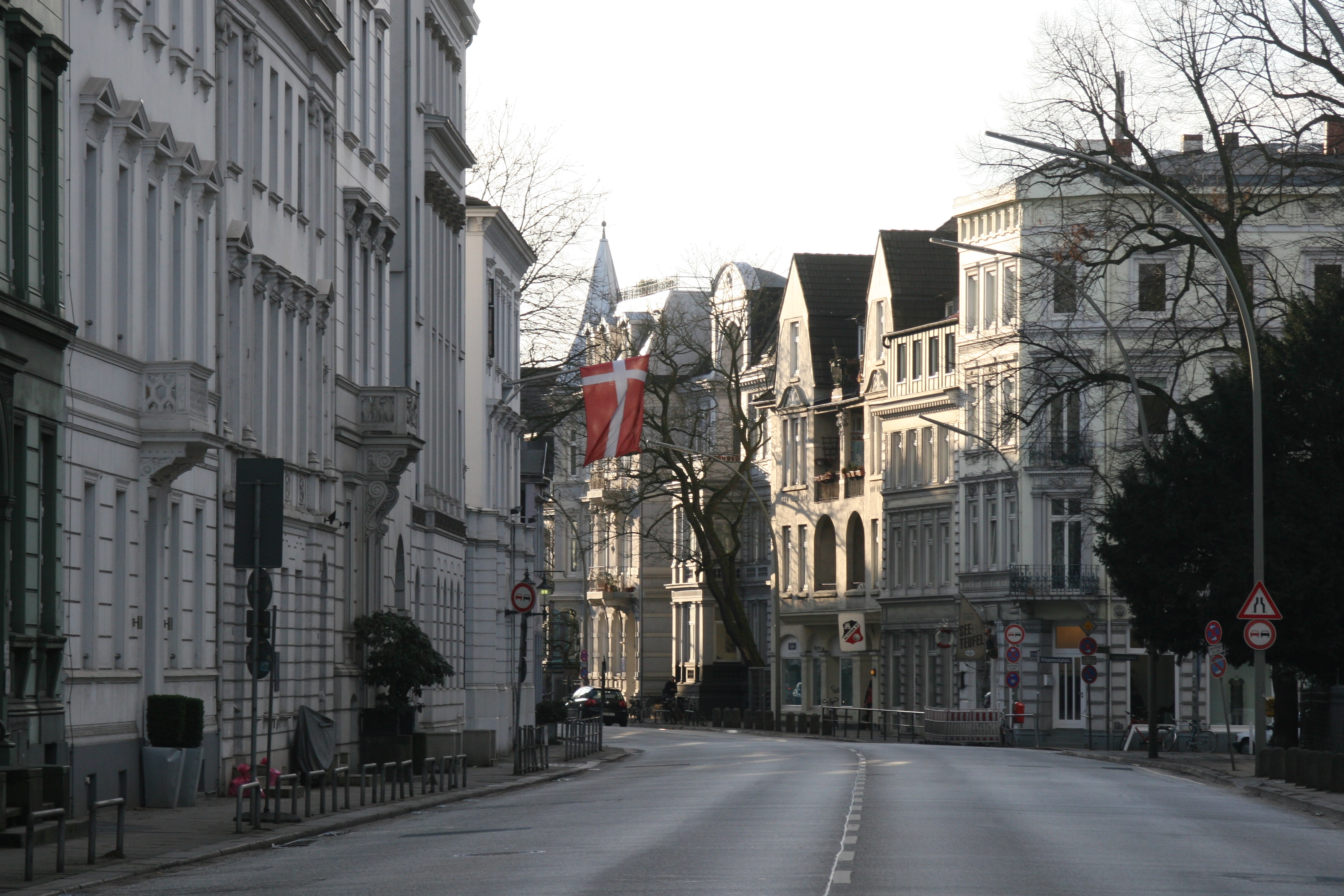 Street Elbchaussee in Hamburg-Ottensen, Germany